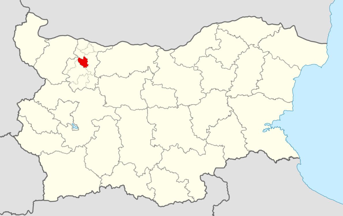 Location map of Borovan Municipality within Bulgaria and Vratsa Province.